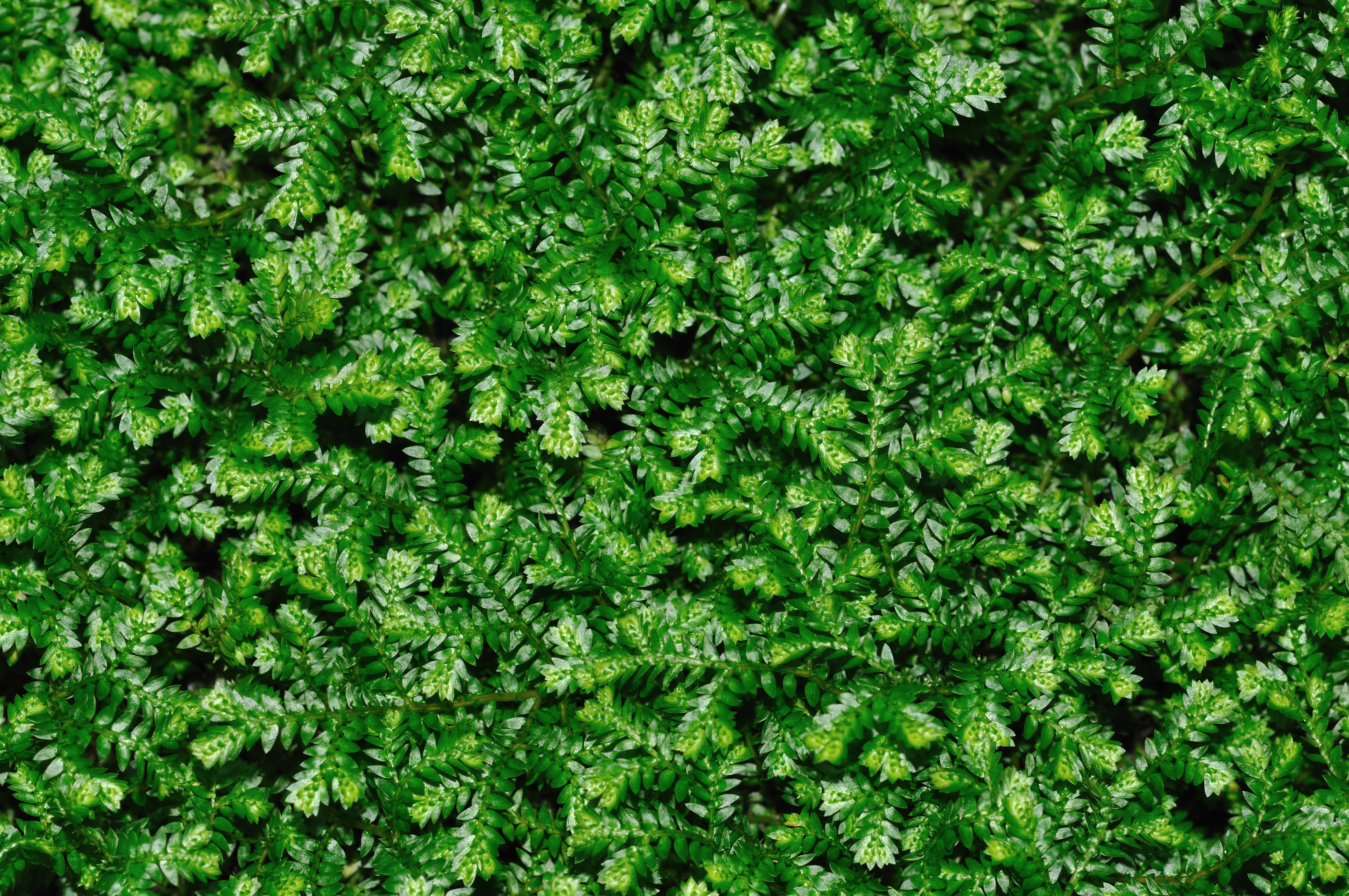 African Clubmoss (Selaginella kraussiana) in the Wilhelma, Stuttgart, Germany.